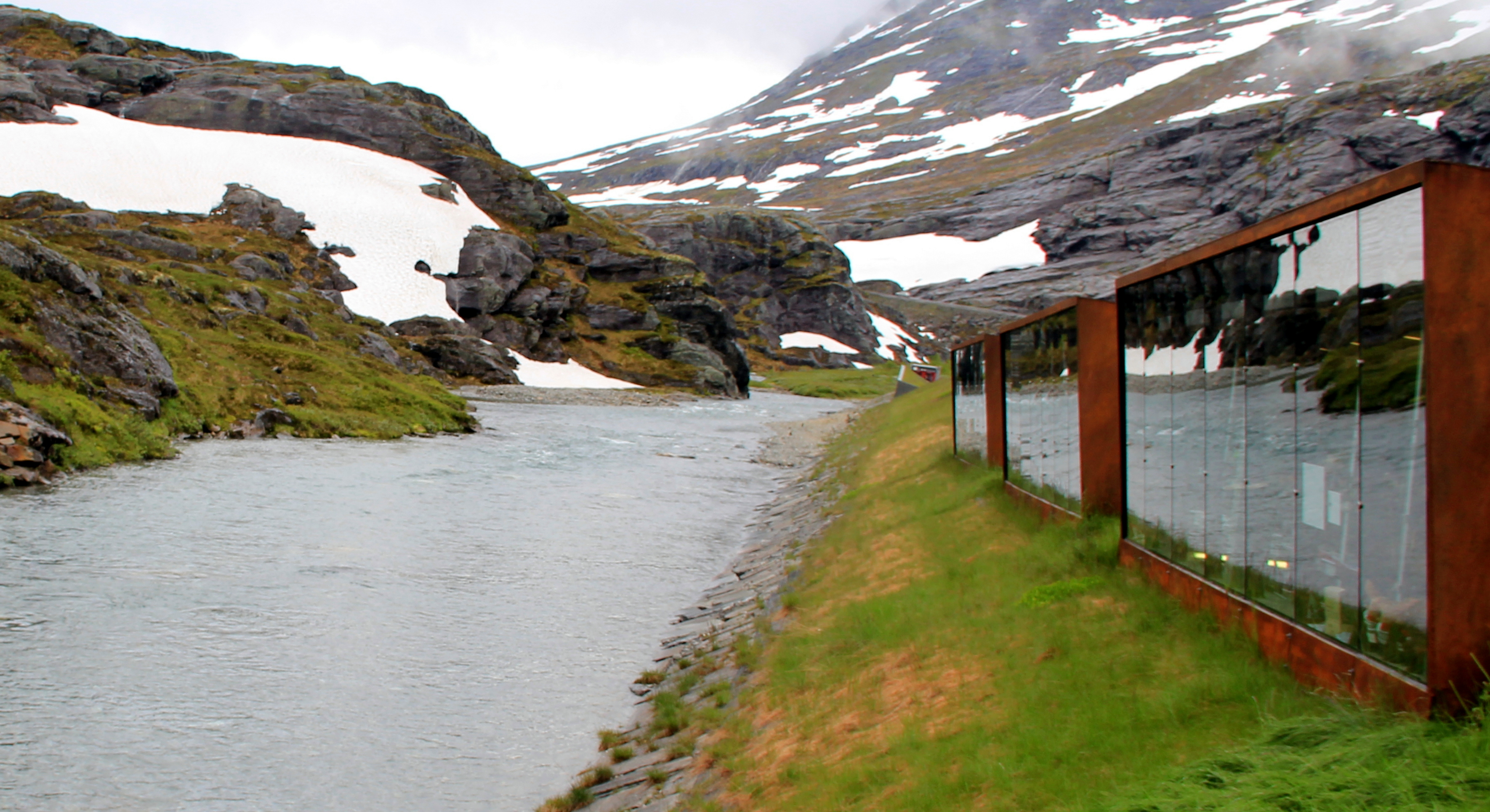 Visitor center at Trollstigen, Norway